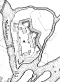 Plan_of_Brest